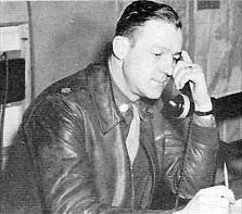 Addison Baker from [1]